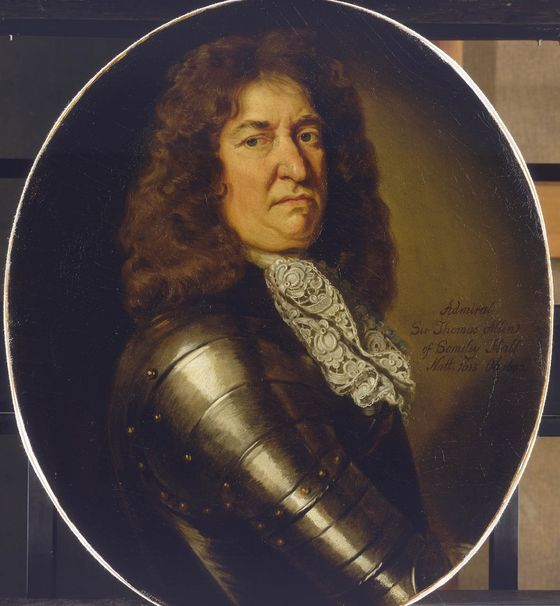 Admiral Sir Thomas Allin, oil on canvas, by Sir Godfrey Kneller. A half-length oval portrait, showing the sitter turned to viewer's right, in armour and wearing a brown full-bottomed wig. This portrait is inscribed, lower right, 'Admiral Sir Thomas Allin of Someley Hall Natt.[natavit] 1613 Ob[iit].1685'.